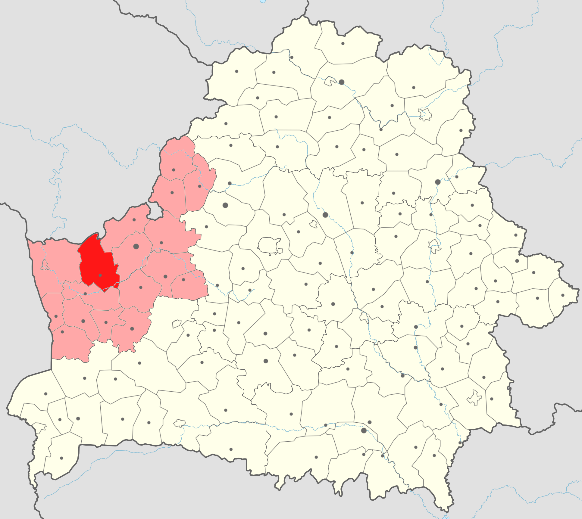 Map of Ščučynski rayon (in red) with Hrodna voblast' (in light red) on the map of Belarus.